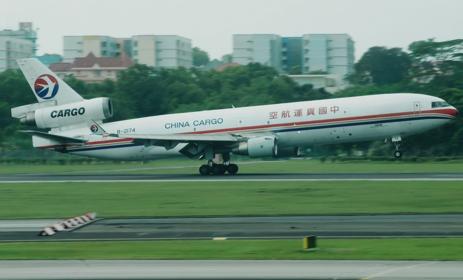 China Cargo Airlines McDonnell Douglas MD-11F (B-2174) taking off from runway 20R at Singapore Changi Airport.